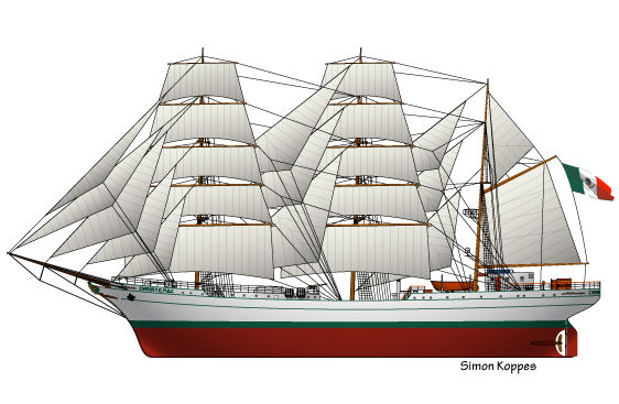 Drawing of the Mexican sailing ship Cuauhtémoc